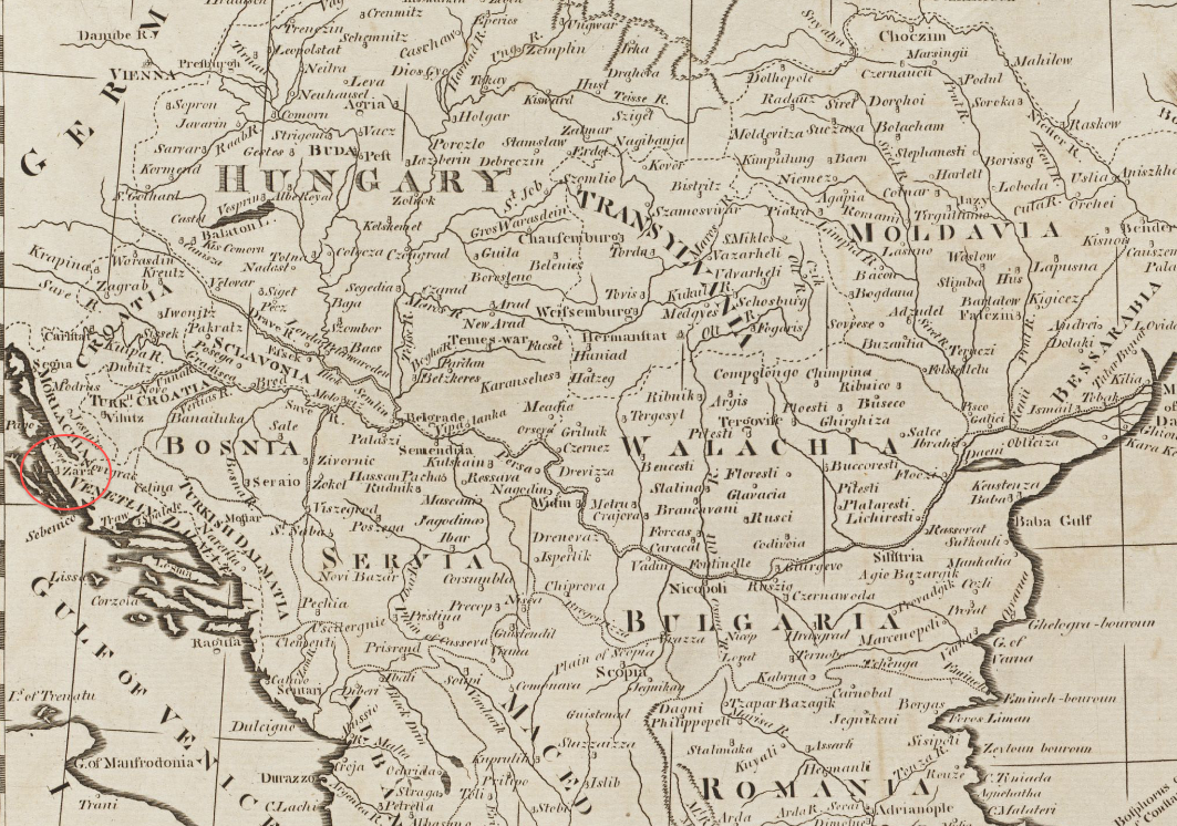 Detail of map: Turkey, in Europe and Hungary; from the best authorities Author: Carey, Mathew Publisher: Carey, Mathew Date: 1800